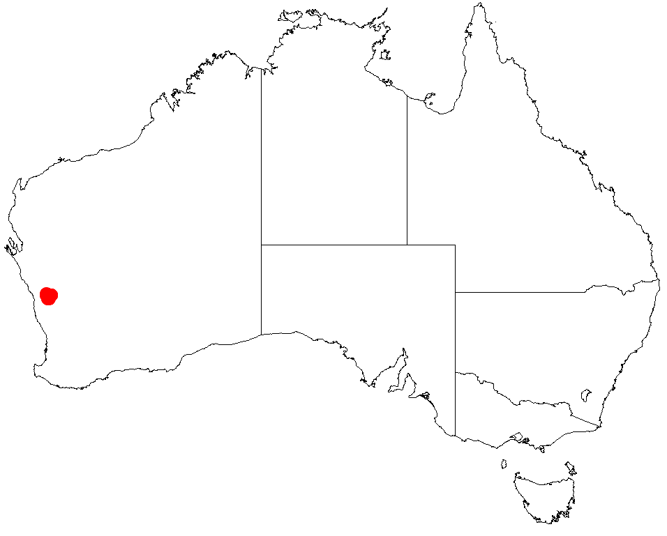 Acacia pterocaulon occurrence data from Australasian Virtual Herbarium downloaded from on December 8 2018